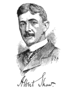 Depiction of journalist and thinker Albert Shaw, from his entry in Gue, Benjamin F. (1899). The National Cyclopaedia of American Biography, Volume IX. New York: James T. White & Company. p. 470.